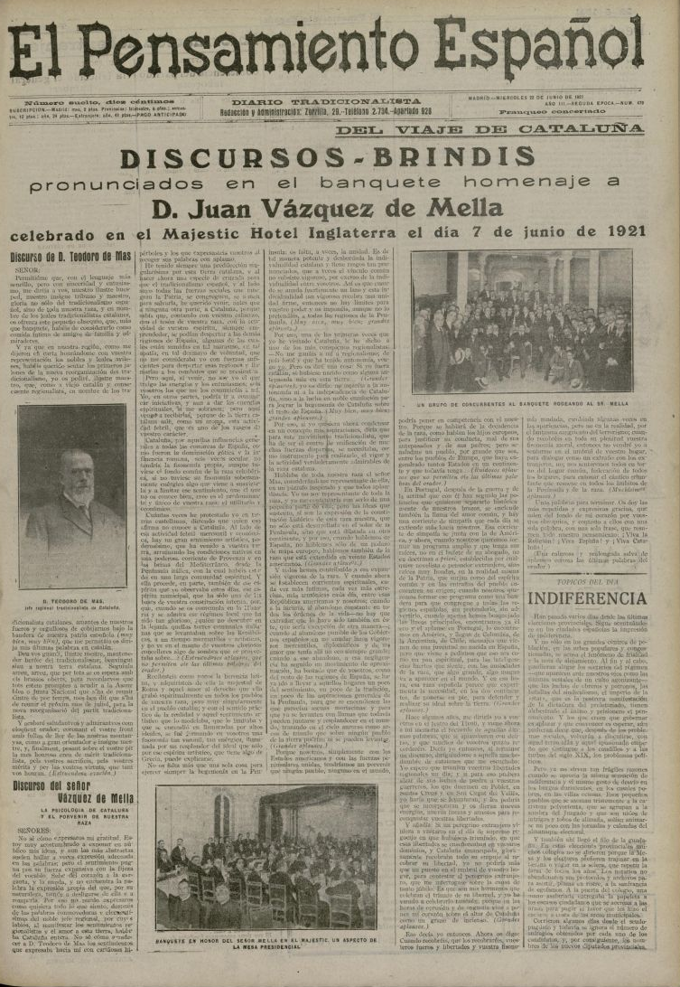 El Pensamiento Español (22-6-1921)